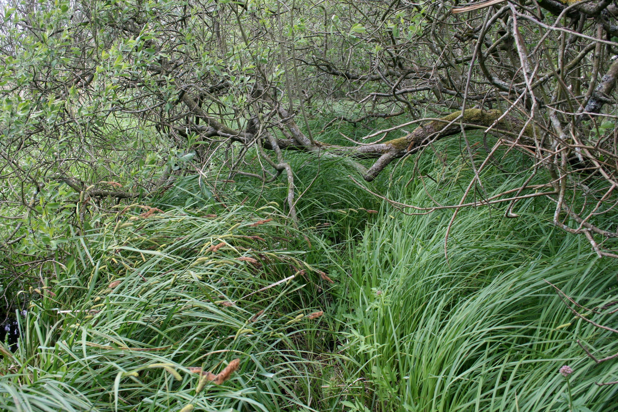 Carex acutiformis: Habitat